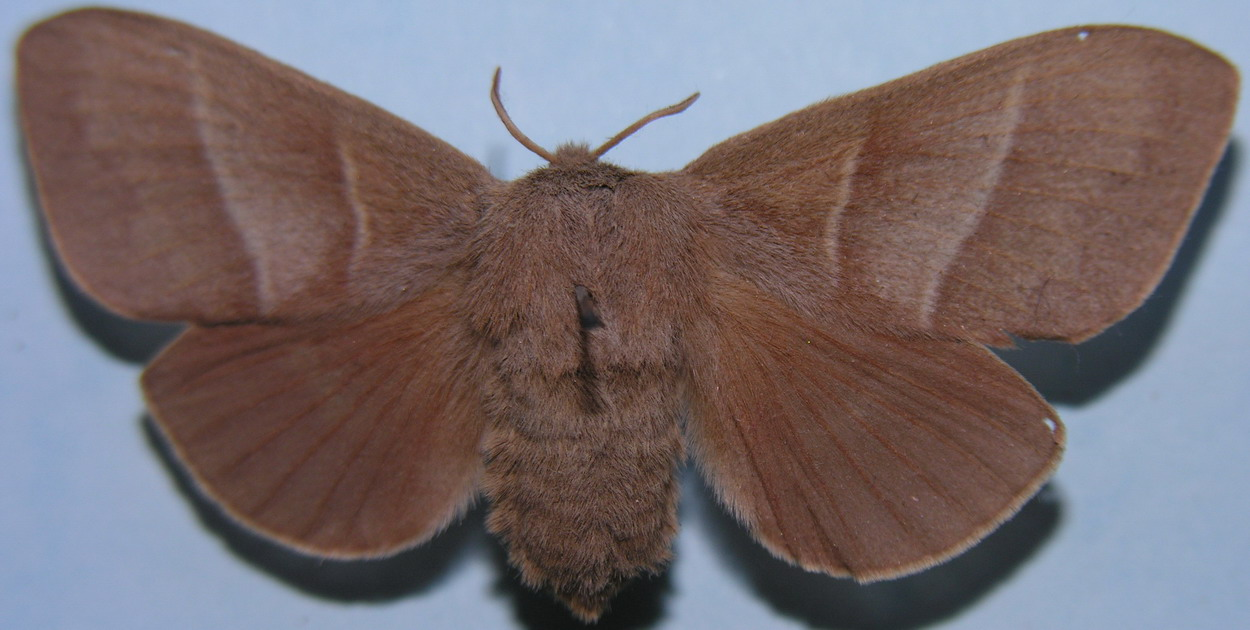 Macrothylacia rubi (Linnaeus, 1758), female Many thanks to P.B.M.A. for determination! Photo by Algirdas, Lithuania, 13 December 2005 m.